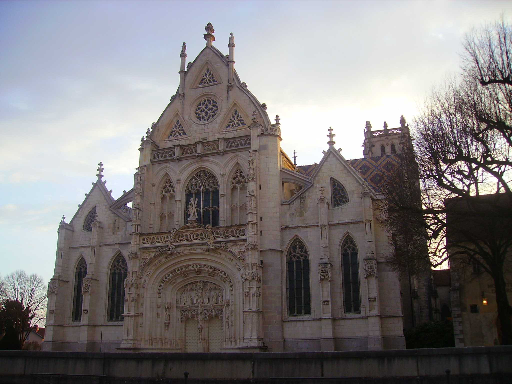 Facade of Brou Monastery Church, Bourg-en-Bresse